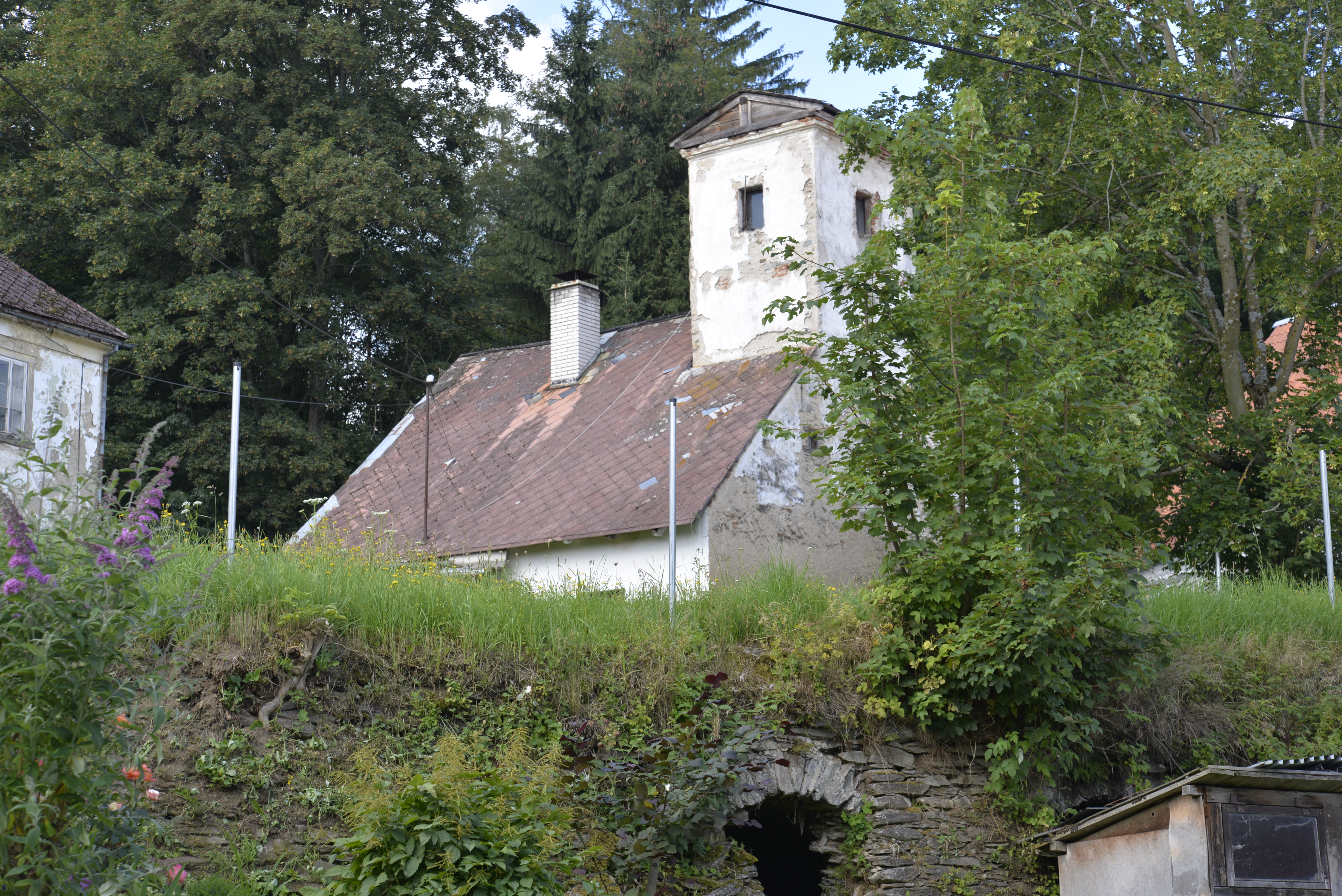 Castle Hlavňovice, Hlavňovice 1,, former chaple